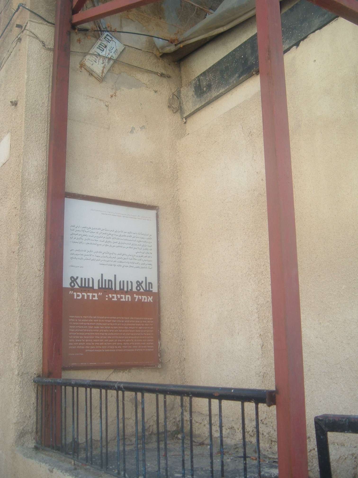 A plaque with quotes from Emil Habibi's book "Ahtiyeh" in St. Luke st. Wadi Nisnas, Haifa שלט ועליו ציטטה מספרו של אמיל חביבי "אח'טיה" ברח' סט. לוקס בואדי ניסנאס בחיפה